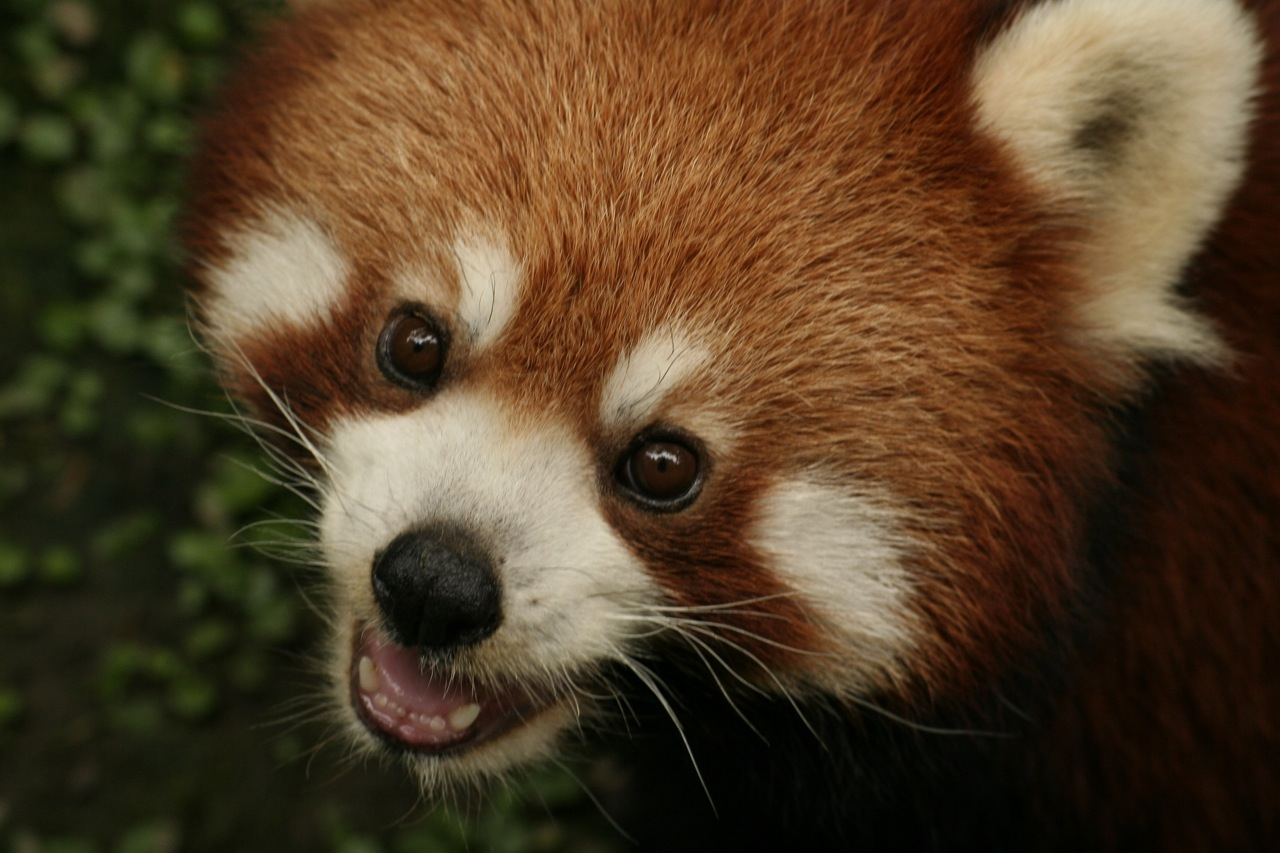 Red panda's are my new favorite animal...